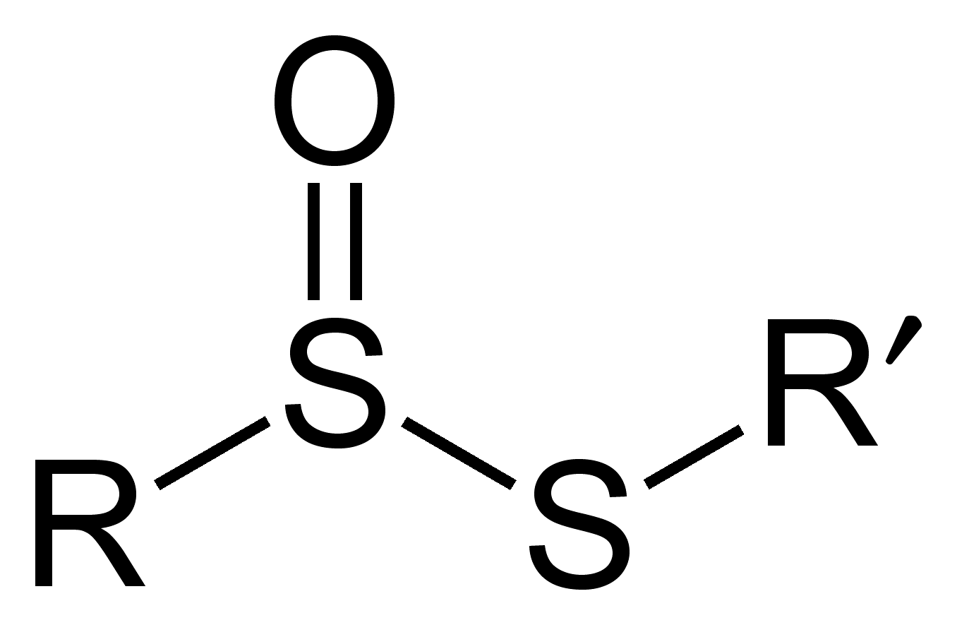 General structural formula of a thiosulfinate ester, RS(=O)SR′. Structure drawn in ChemBioDraw Ultra 12.0.